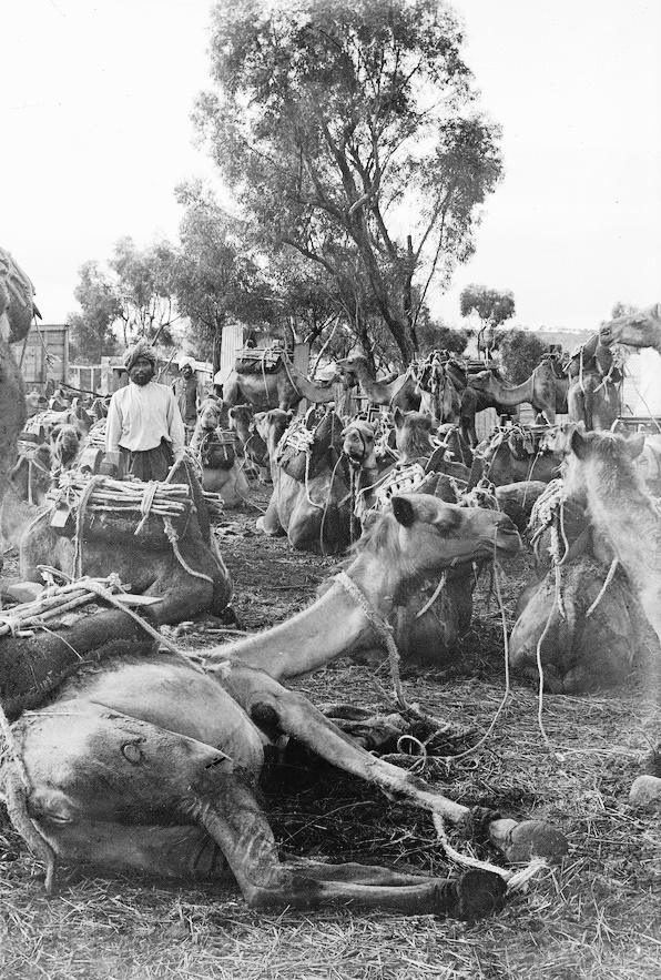 The so-called Afghans were of many ethnicities, and came to Australia in the 2nd half of the 19th C to help open up the interior. See Afghan (Australia)] (on Wikipedia - which will be renamed soon).